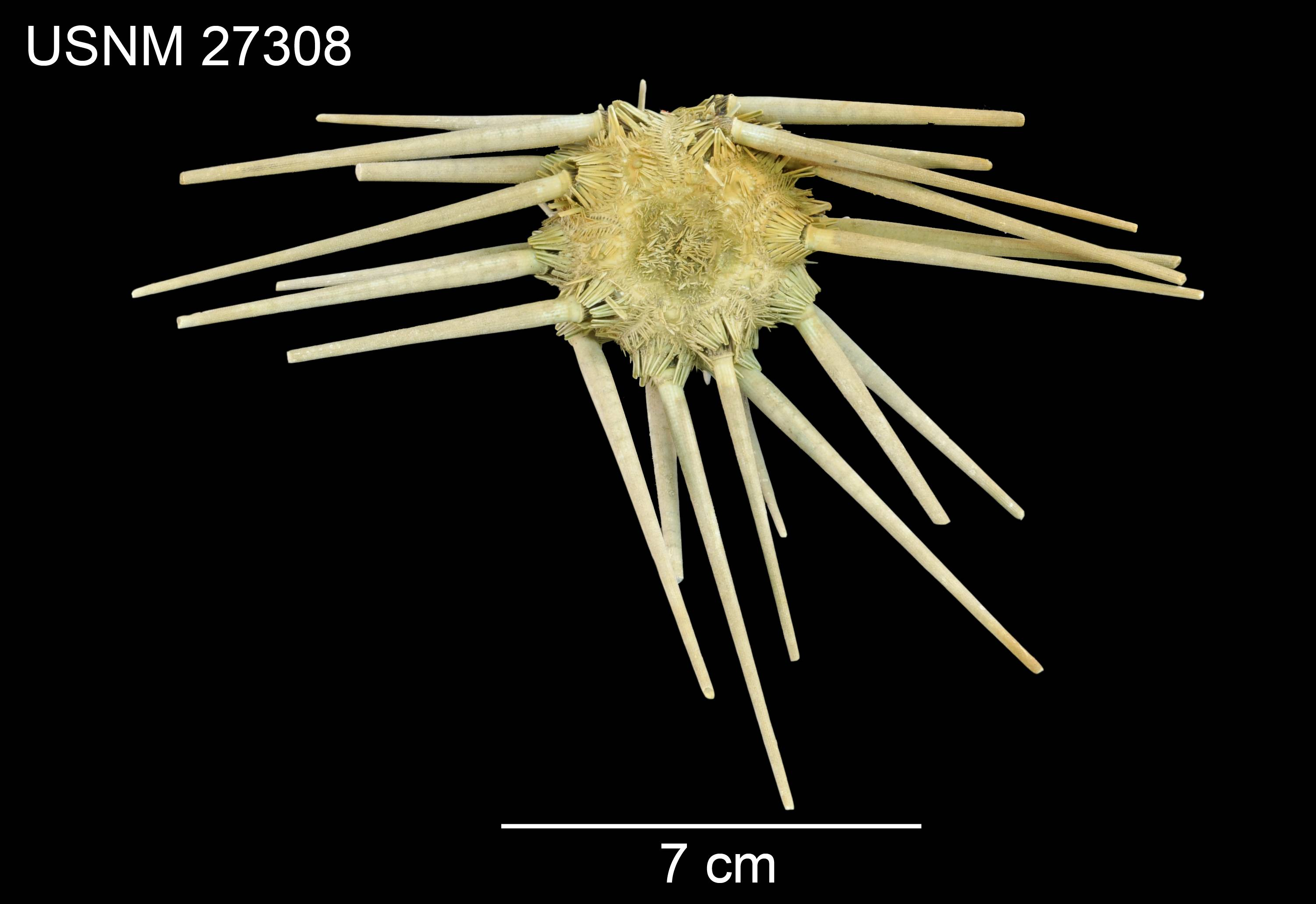 PRESERVED_SPECIMEN; Preparations: Dry; Dorocidaris calacantha A.Agassiz & H.L.Clark, 1907; Individual count: 1; Type status: LECTOTYPE; Identified by: Agassiz, Alexander E.; Clark, Hubert L.; Event date: 19020409T00:00:00Z; Additional description: ventral